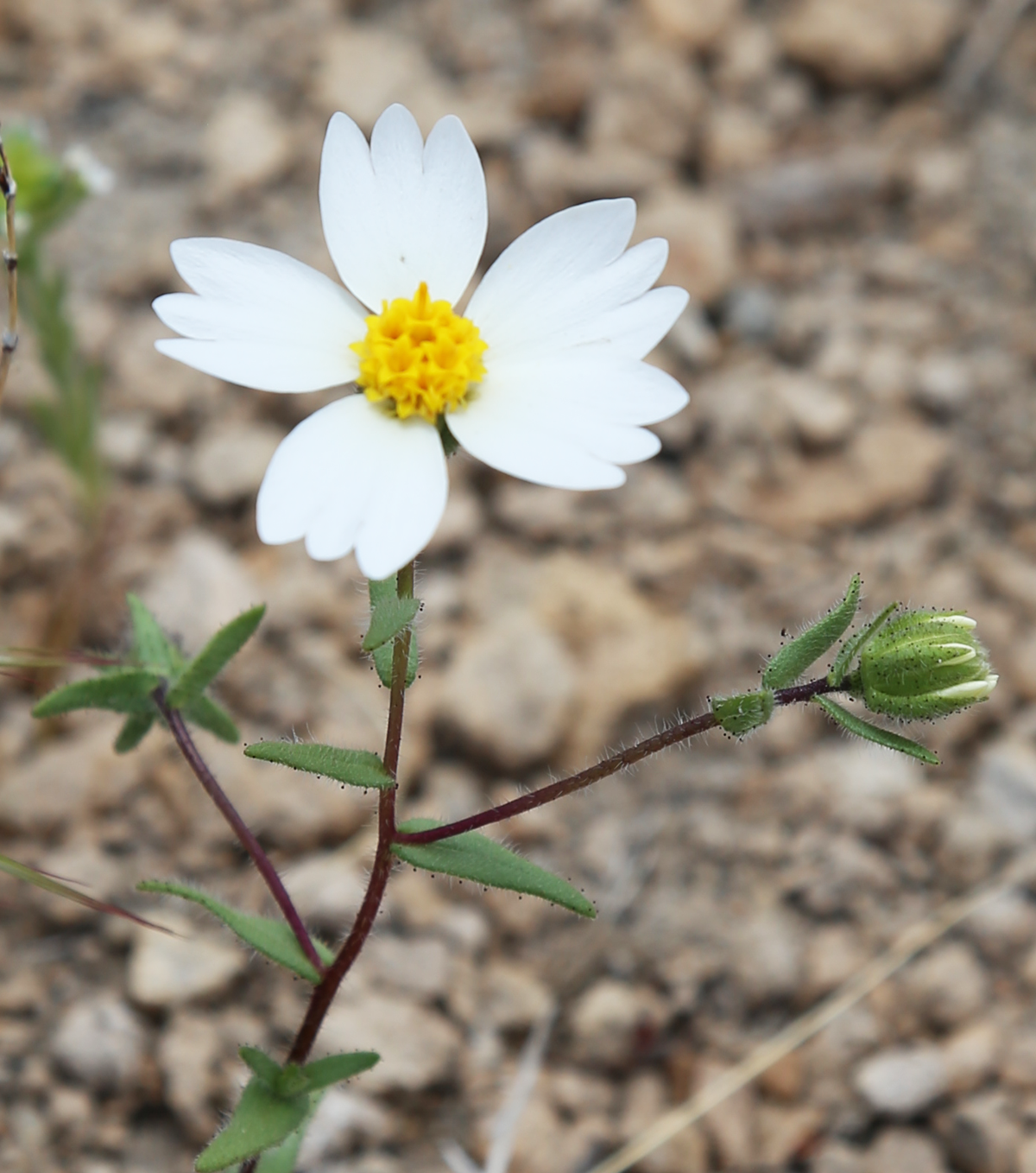 White layia, or whitedaisy tidytips, (Layia glandulosa) face-on view of flower, with bud. The disc flowers form a deep yellow mound; the 3-14 (typically 5, as here) ray flowers are white, broad, 3-lobed, and do look "tidy"; the bud, the stems and the opposite leaves are covered in glandular hairs. At 5,500 ft (1,700 m) between Paradise and Swall Meadows, Mono County, California, in the Eastern Sierra Nevada.